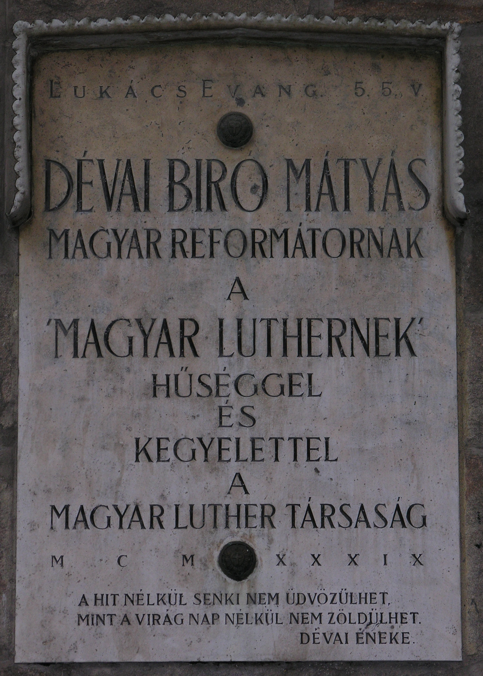 Commemorative plaque of Mátyás Dévai Bíró in Budapest District III, Dévai Bíró Mátyás Square